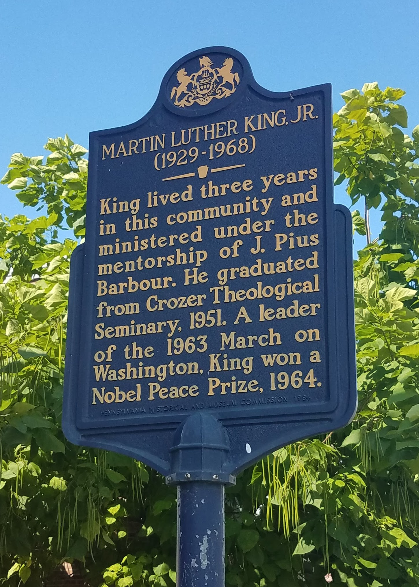 Photo of Pennsylvania historical marker in front of Calvary Baptist Church in Chester, Pennsylvania taken July 5, 2018